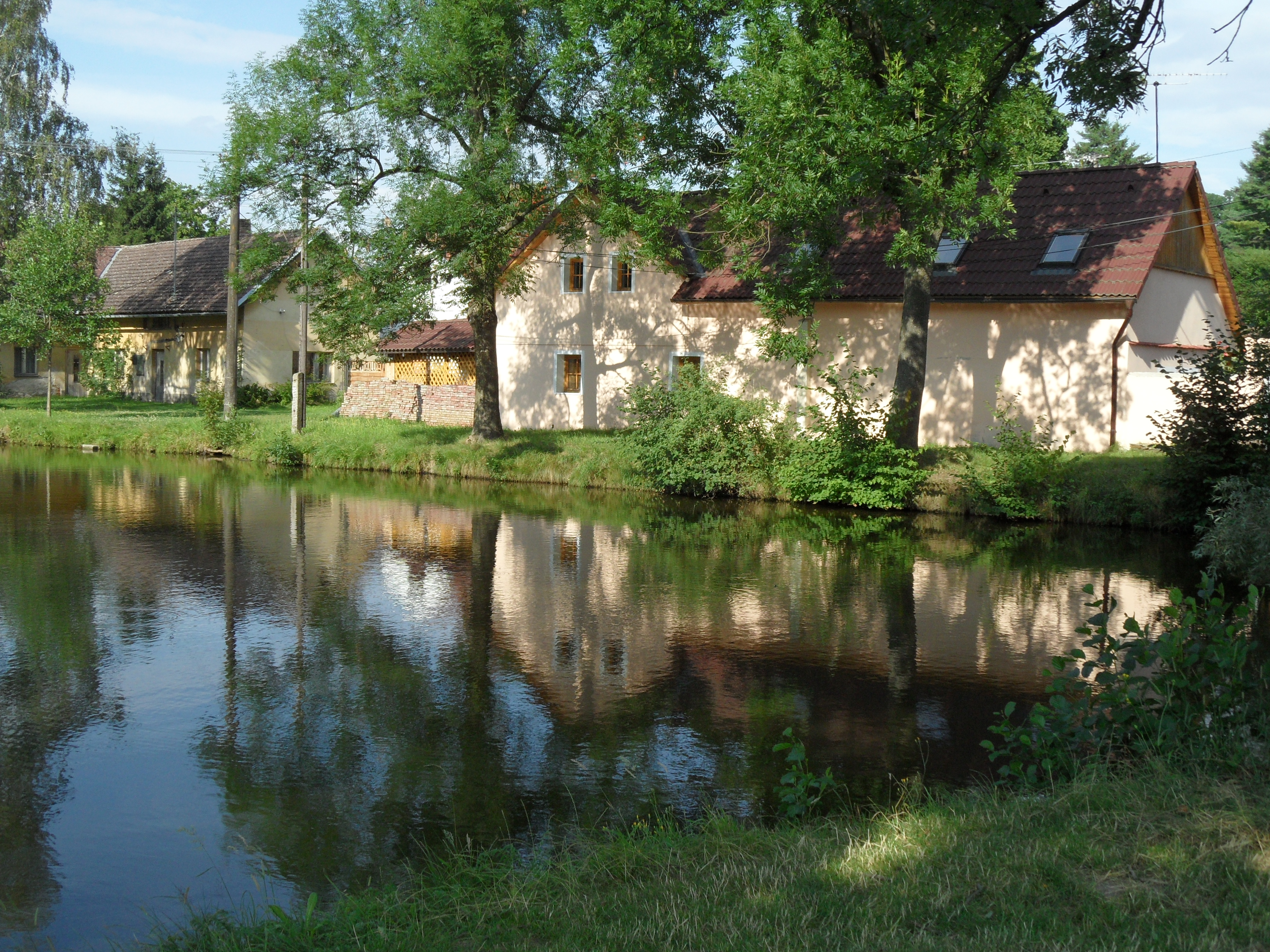 Nepoměřice A. Houses behind Pond, Kutná Hora District, the Czech Republic.